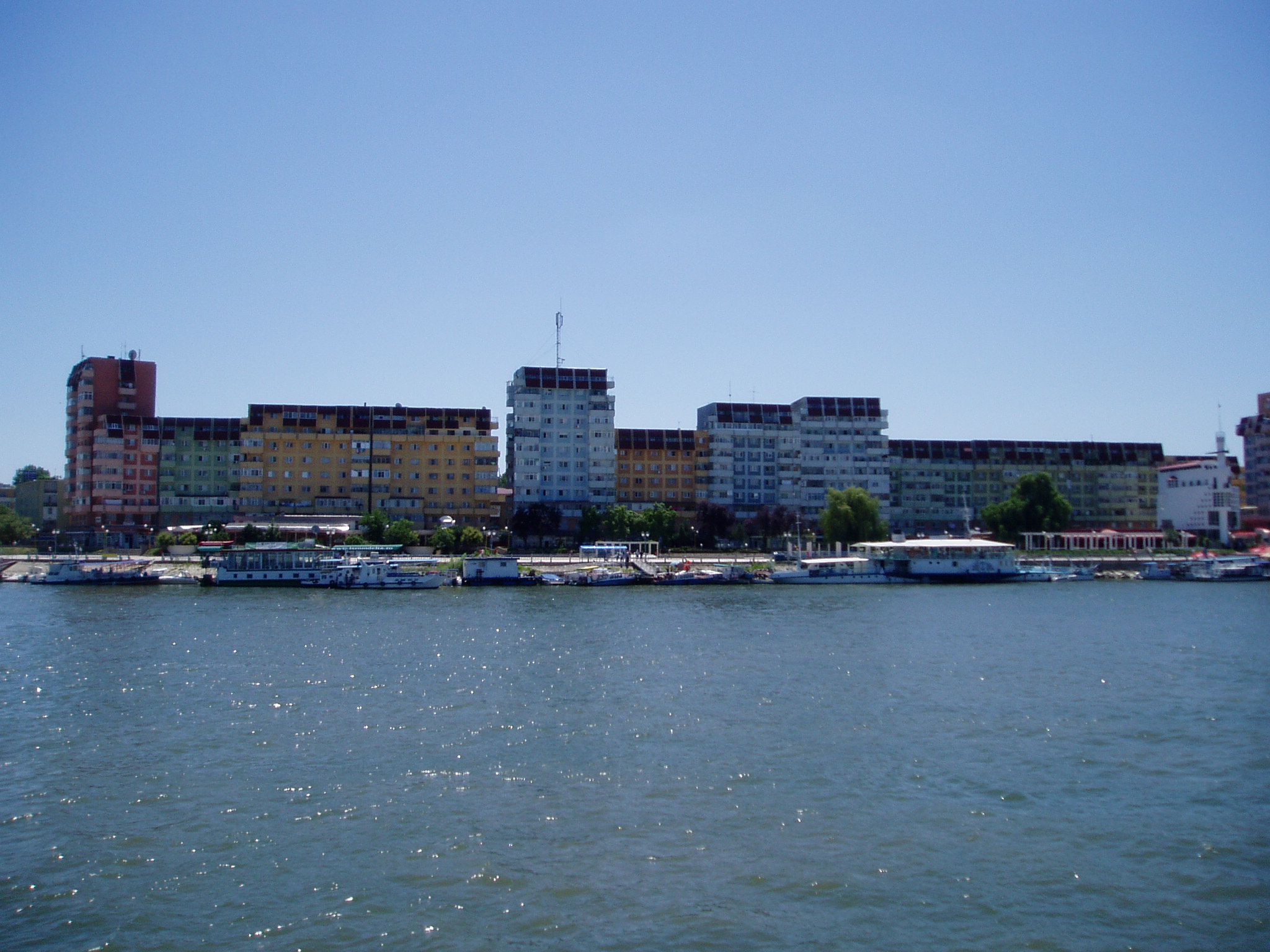 The skyline of the city Tulcea, Romania